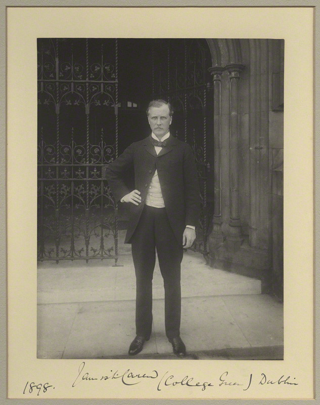 Photograph of James Laurence Carew (1853–1903); an Irish nationalist politician. The photograph itself was taken by Benjamin Stone (1838-1914) in 1898.